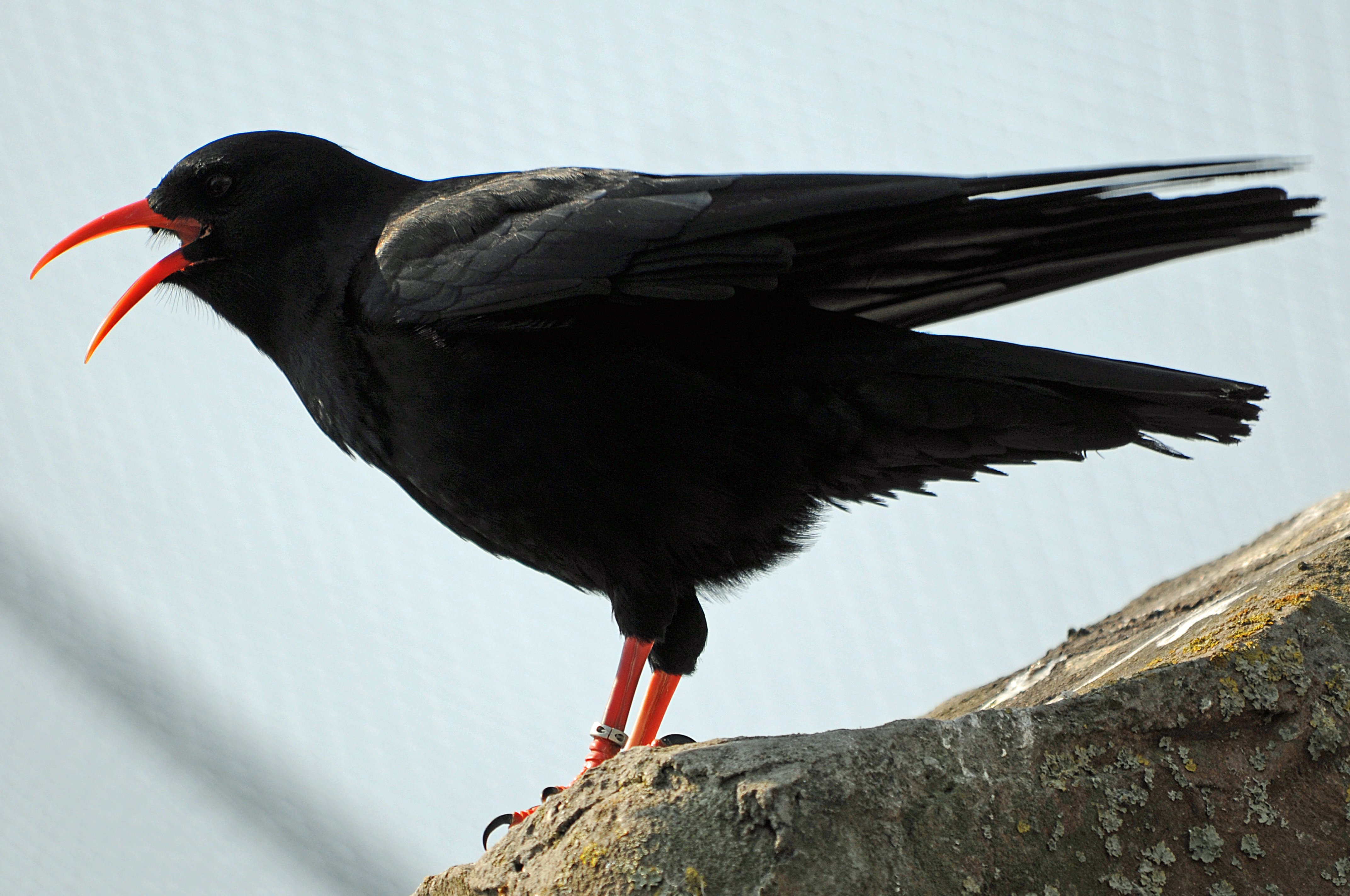 A Red-billed Chough at Living Coasts, Devon, England.